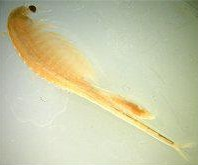 Branchinecta conservatio USFWS photo